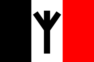 Algiz rune on flag of the organization Volksfront, USA. This organization existed from 1994 - 2012.